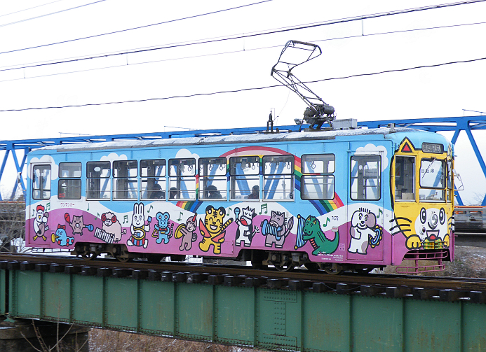 Type DE7070(No.7072) of Manyo line, Takaoka city, Japan.